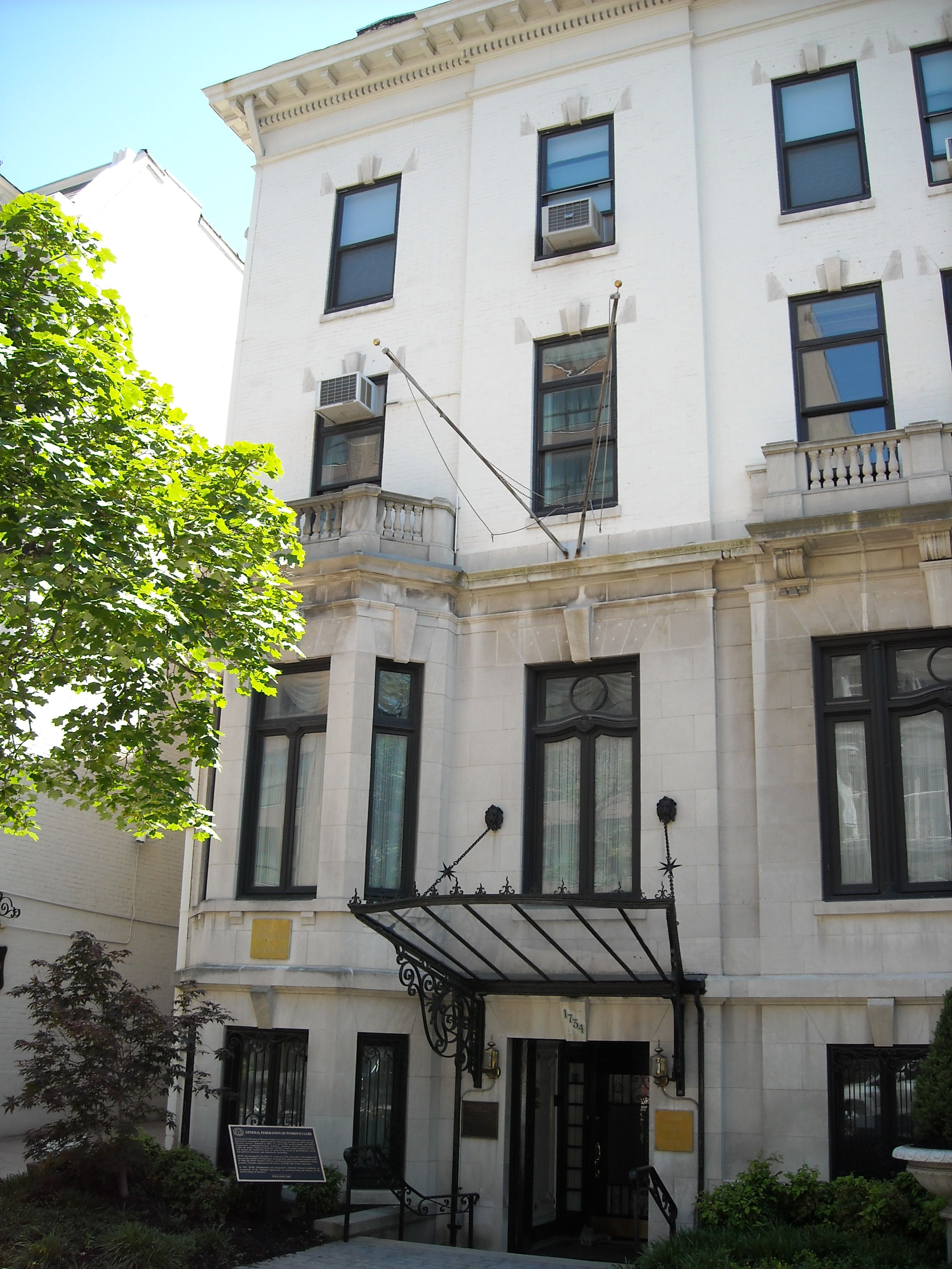 General Federation of Women's Clubs headquarters in Washington, D.C. The building is a National Historic Landmark.